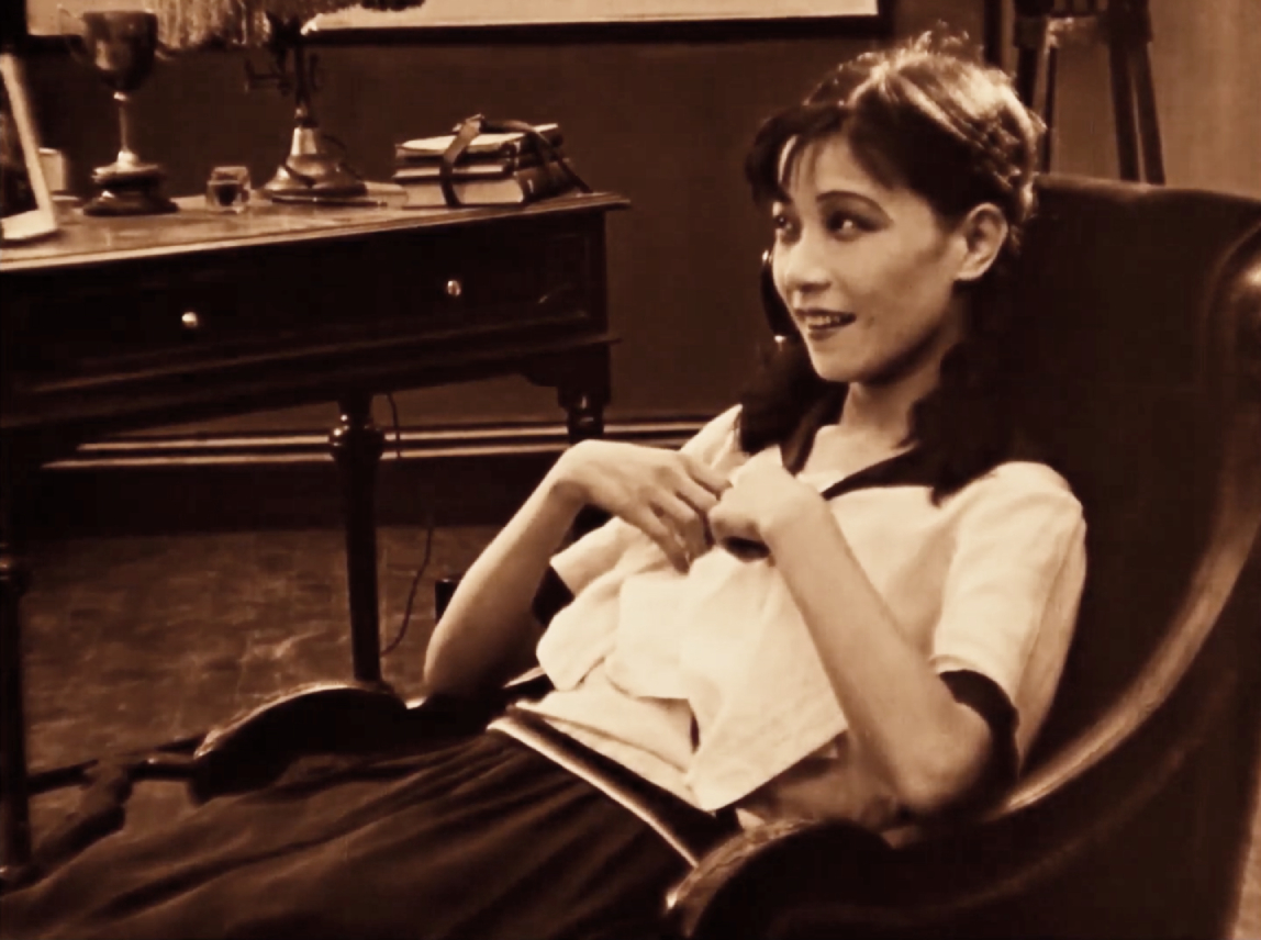 Screenshot from 1931 Chinese film